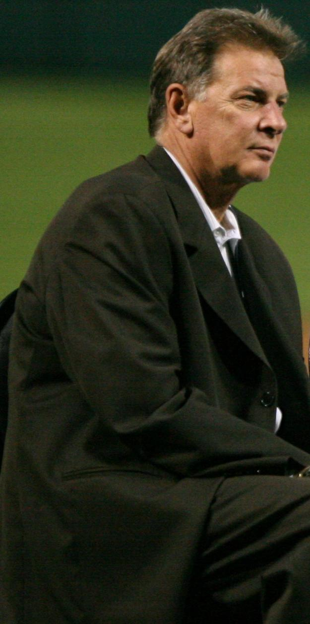 A cropped version of File:Flanagandempsey.jpg, showing Orioles front office executive Mike Flanagan.